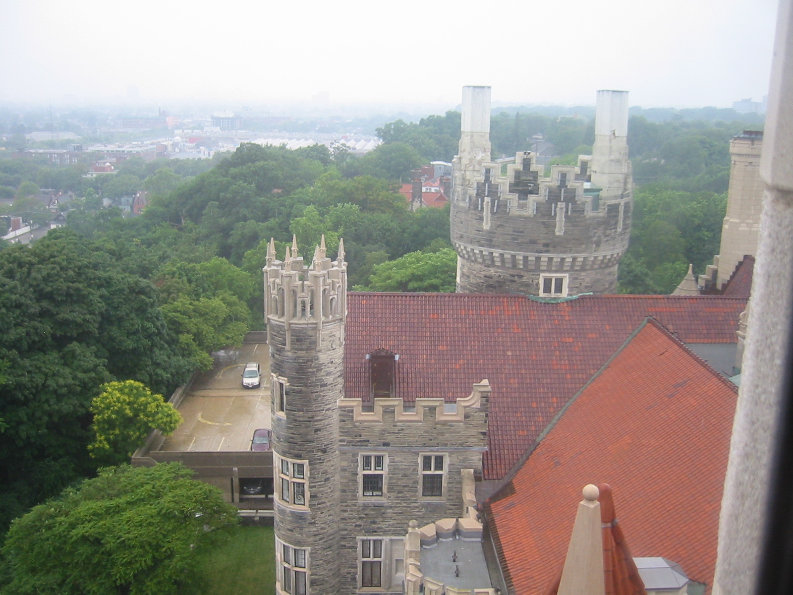 View from Casa Loma, 1 Austin Terrace, Toronto, Ontario, Canada.